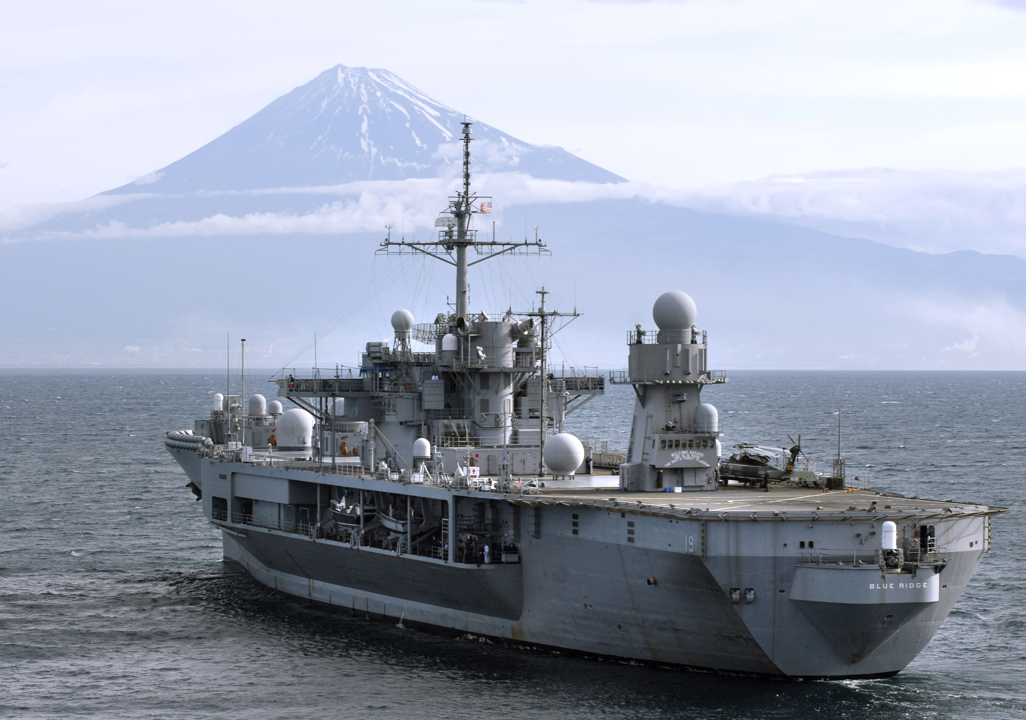 080530-N-6566M-056 SHIMIZU, Japan (May 30 2008) The amphibious command ship USS Blue Ridge (LCC 19) steams within sight of Mt. Fuji on its final stop to Shimizu, ending a six-week Spring Swing tour. Blue Ridge serves under Commander, Expeditionary Strike Group (ESG) 7/Task Force (CTF) 76, the Navy's only forward deployed amphibious force. U.S. Navy photo by Mass Communication Specialist 3rd Class Heidi McCormick (Released)